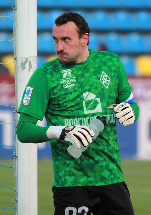 Syarhey Vyeramko with FC Krylia Sovetov Samara in 2012.